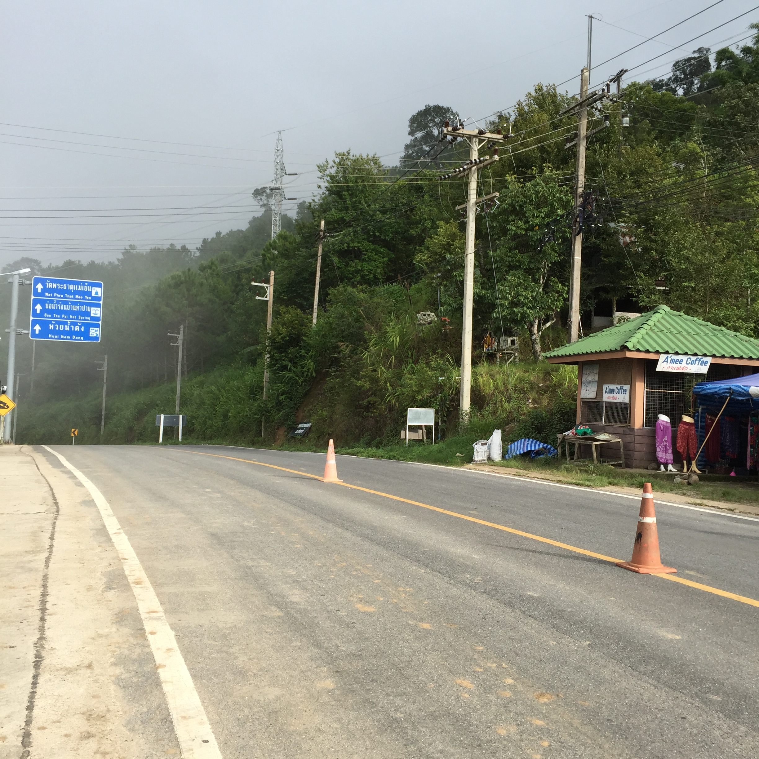 Mae Na Toeng, Pai District, Mae Hong Son 58130, Thailand